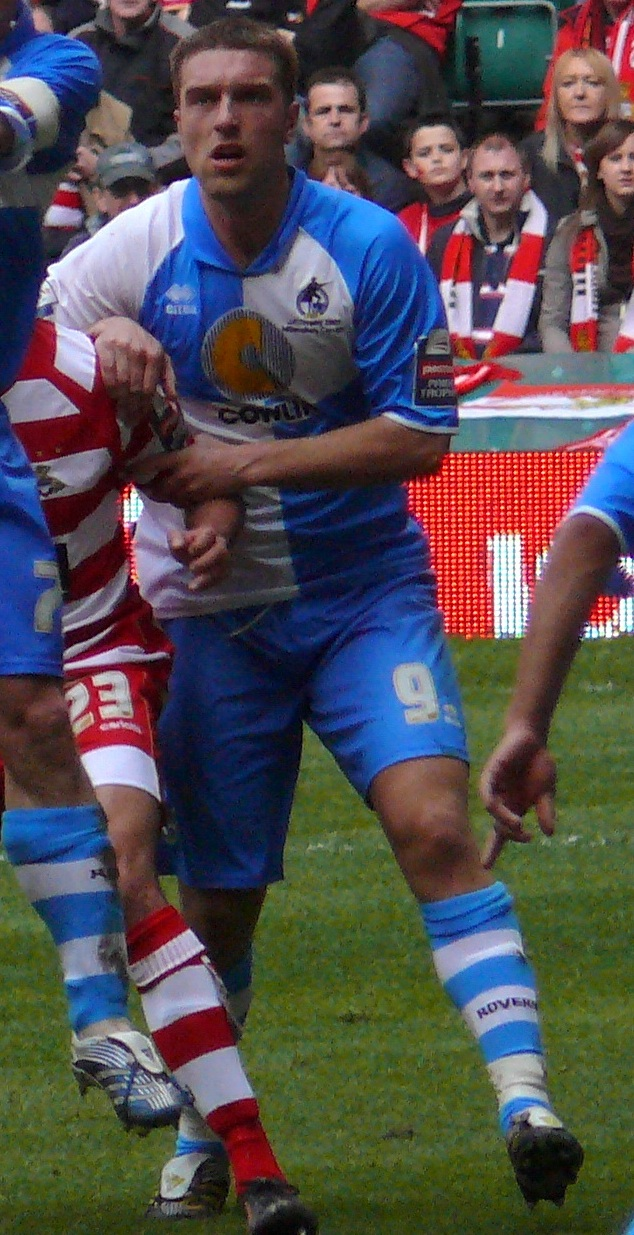 Rickie Lambert, cropped from The Gas defend a corner